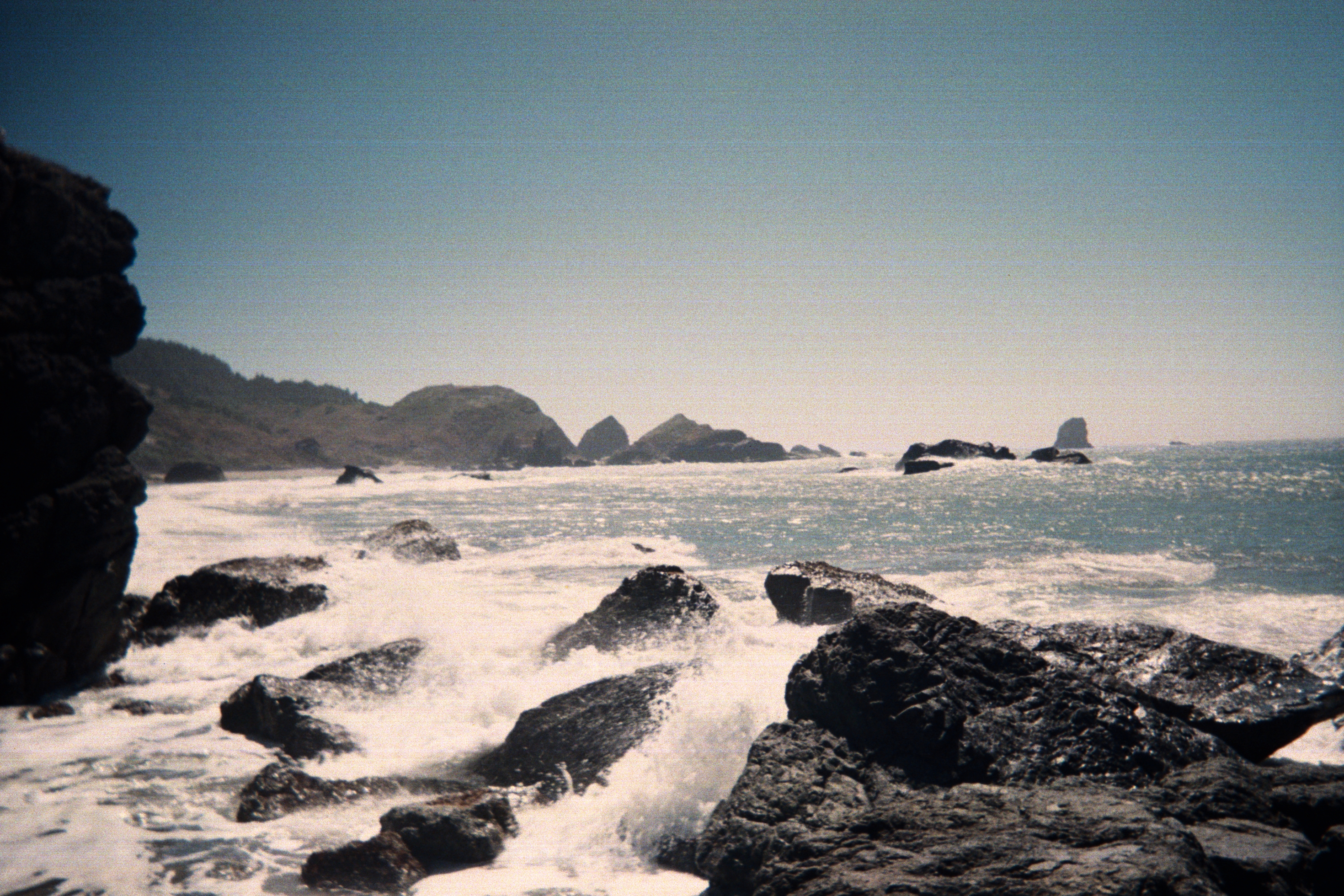 Waves crashing on rocks on the Southern Oregon Coast